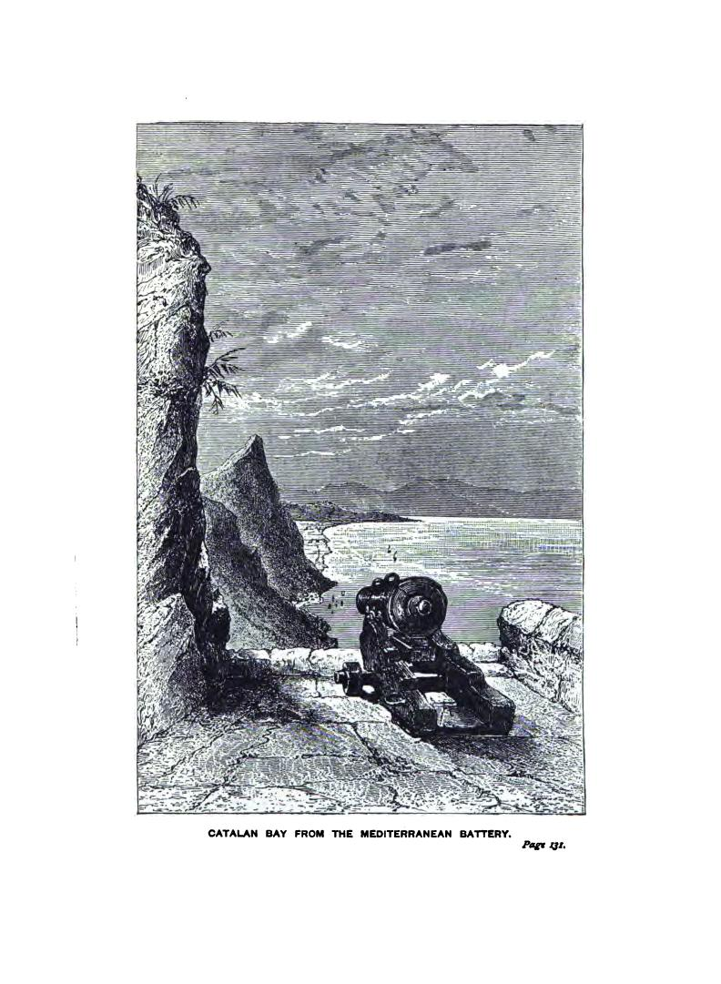 Mediterranean Battery view of Catalan Bay- engravings from "Sieges of Gibraltar" 1879 Provenance: Adapted from the original found in GLEANINGS ON THE OVERLAND ROUTE PICTORIAL AND ANTIQUARIAN. BY W. H. BARTLETT. ANTIQUE ENGRAVING. DATE PUBLISHED 1864 In London by T. Nelson & Sons. Paternoster Row Edinburgh and New York.